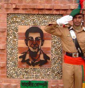 BMA Cadet Zyeem